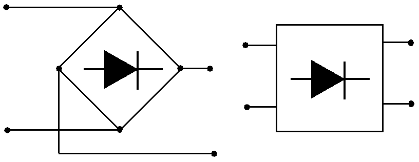 Block diagram symbol of a full-wave rectifier.